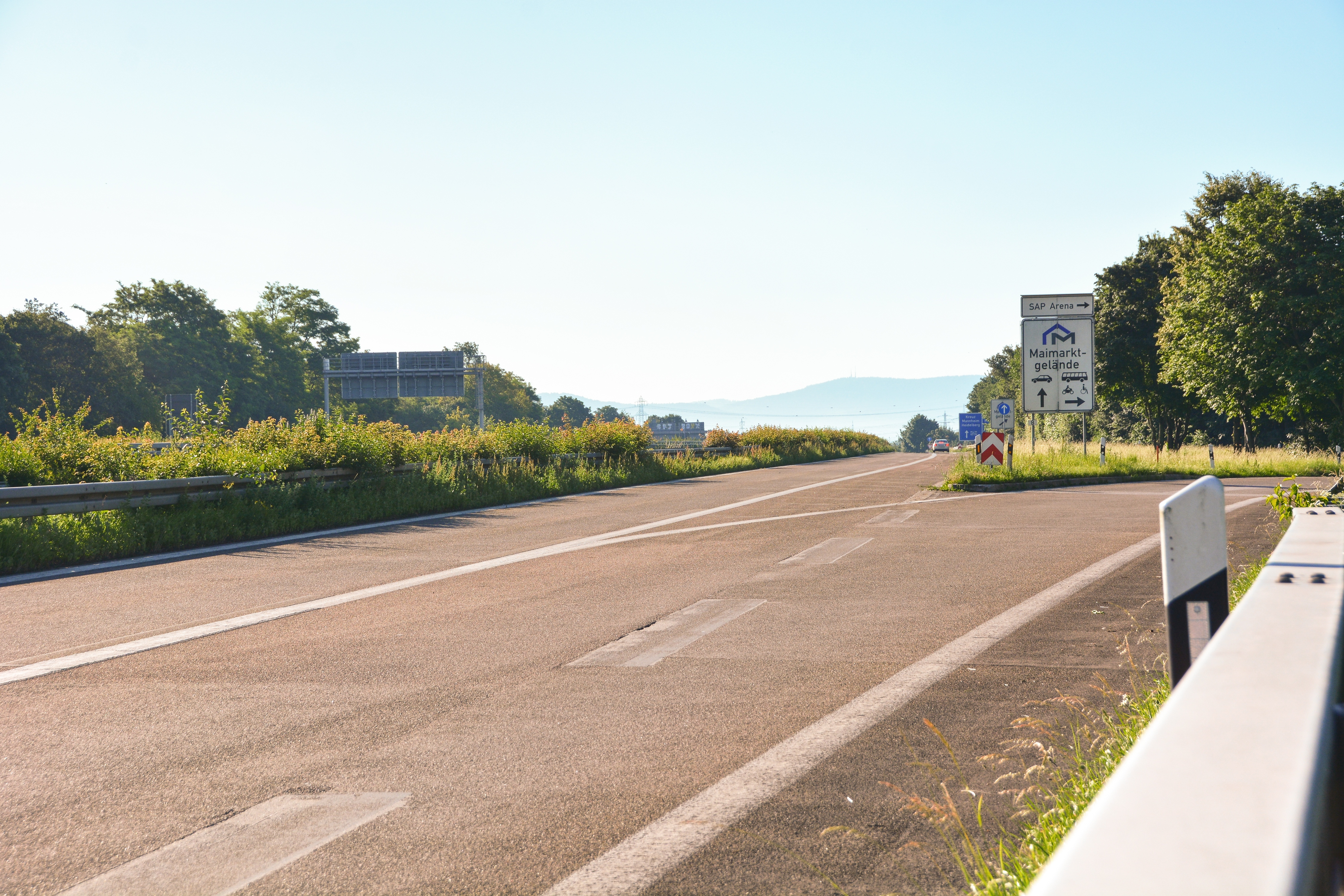 Autobahn 656 (A 656), junction Mannheim-Neckarau, place of the helicopter crash, September 11, 1982